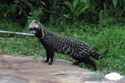 A civet in Gabon